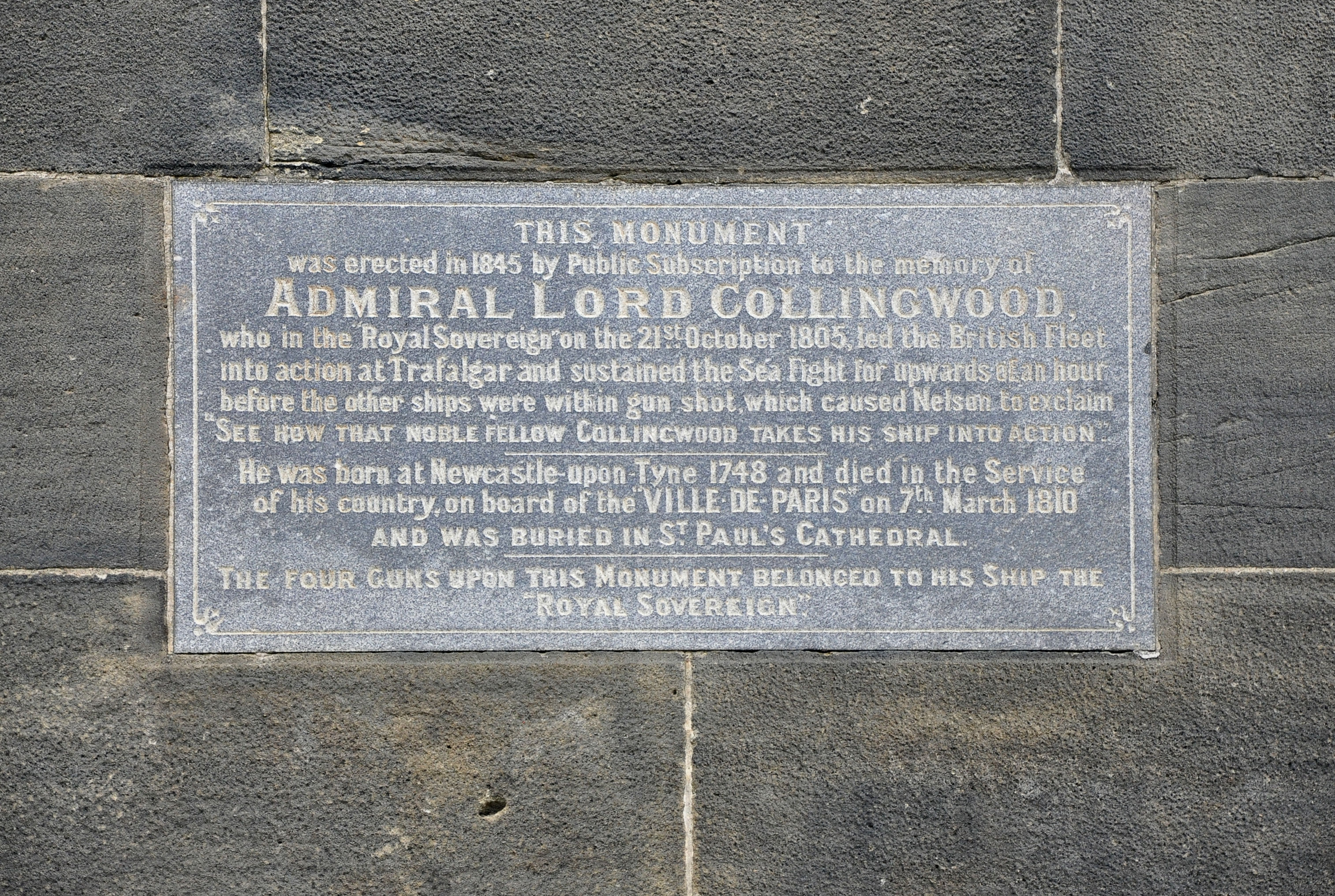 Vice-Admiral Cuthbert Collingwood, 1st Baron Collingwood, (1748-1810) is chiefly remembered for his service to his country during the Napoleonic War. In the words of the plaque on the monument: This monument was erected in 1845 by Public Subscription to the memory of Admiral Lord Collingwood who in the “Royal Sovereign” on the 21st October 1805, led the British Fleet into action at Trafalgar and sustained the Sea Fight for upwards of an hour before the other ships were within gunshot, which caused Nelson to exclaim: “See how that noble fellow Collingwood takes a ship into action”. He was born at Newcastle-upon-Tyne 1748 and died in the Service of his country, on board of the “Ville de Paris” on 7th March 1810 and was buried in St Paul’s Cathedral. The four guns upon this monument belonged to his ship the “Royal Sovereign”. The monument is situated on the Spanish Battery, the headland that dominates the mouth of the River Tyne near Tynemouth.